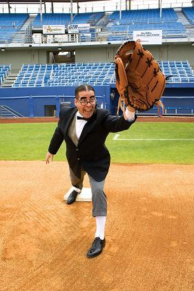 Myron Noodleman holding a large baseball glove.